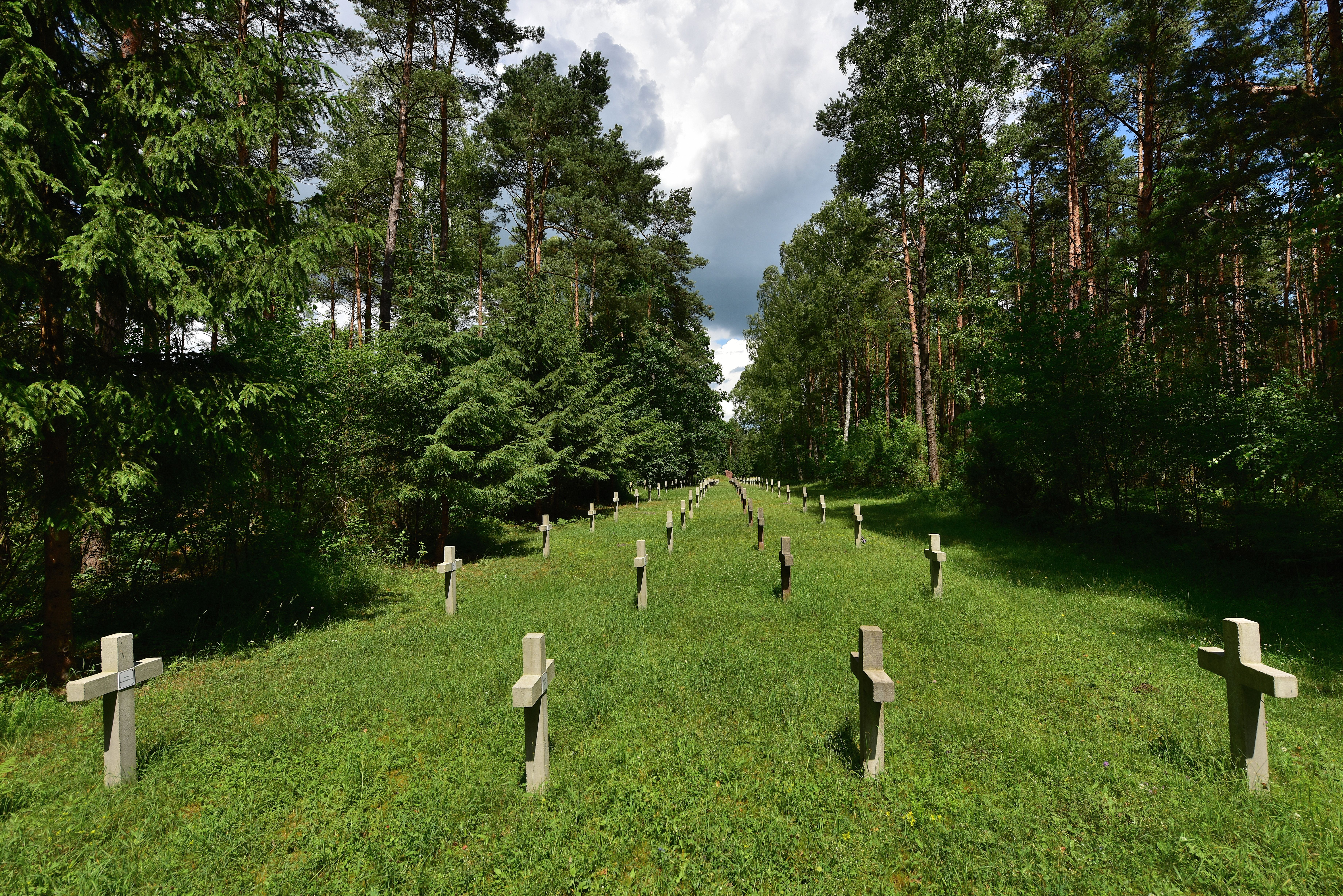 A part of Treblinka execution place memorial